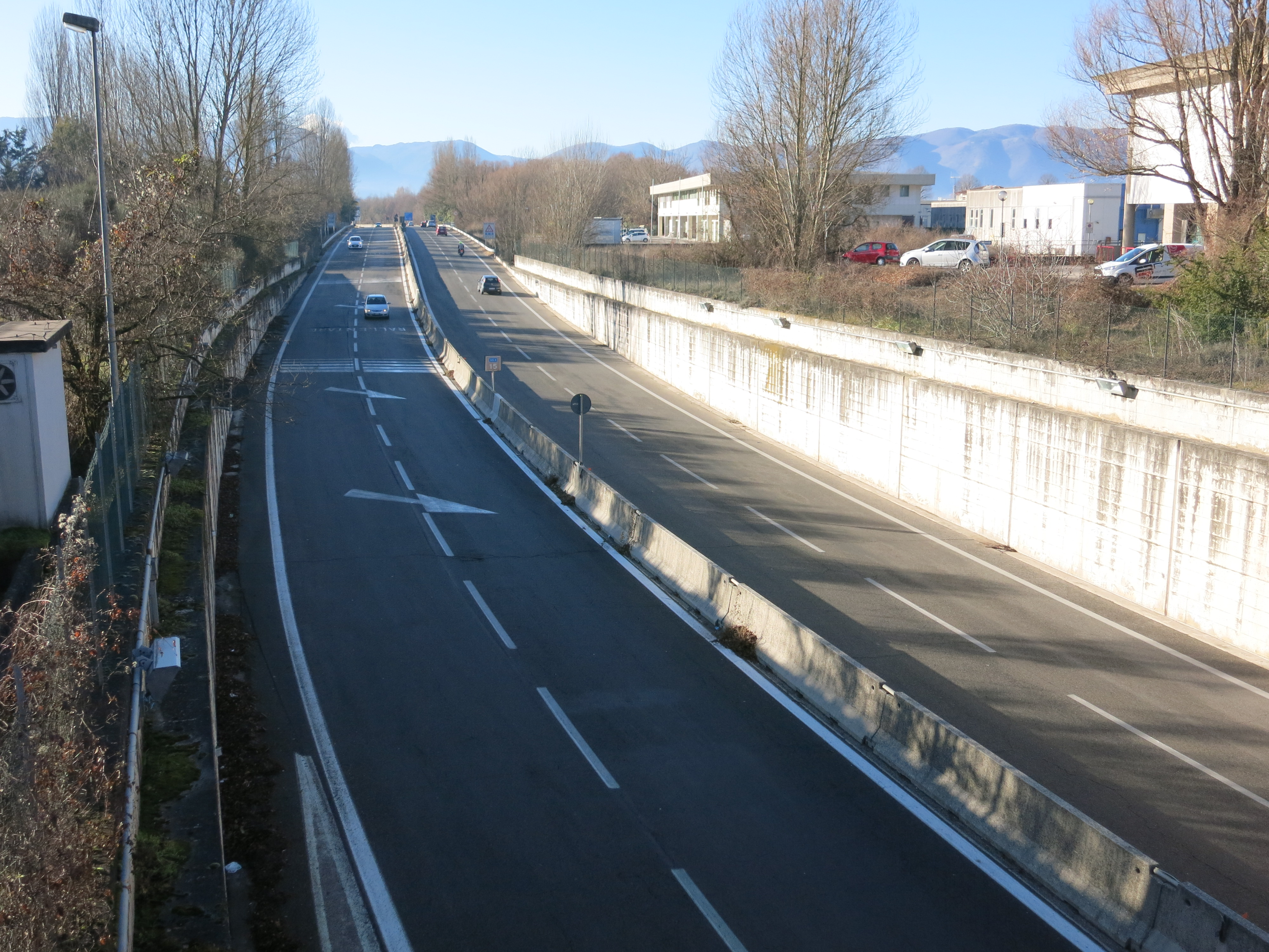 The double carriageway trait of Italian State Road n. 4 "Via Salaria", south of Rieti, opened in 1993 to replace the older single carriageway route. Picture was taken from the overbridge on the old route.